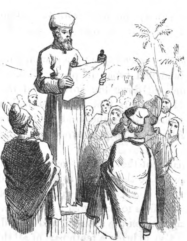 Levites reading the law to the people.